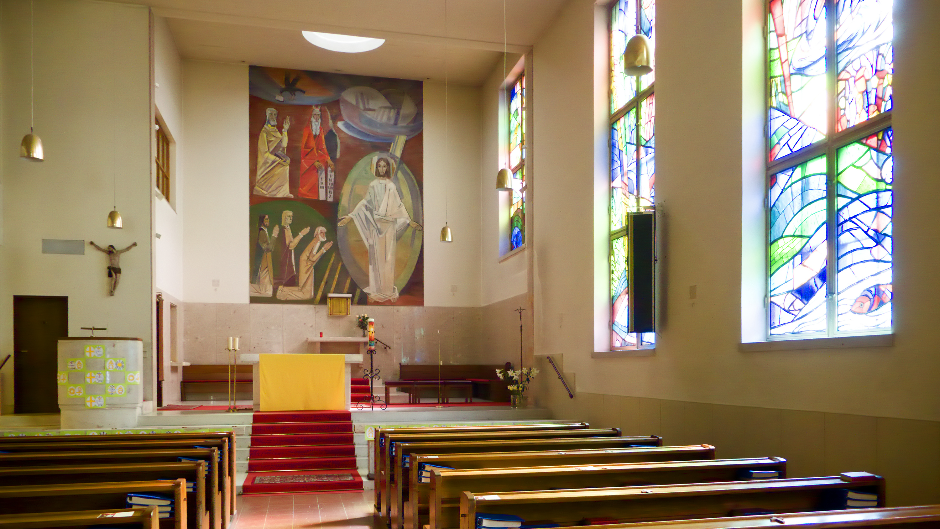 Church Unter St. Veiter Pfarrkirche in Vienna Hietzing